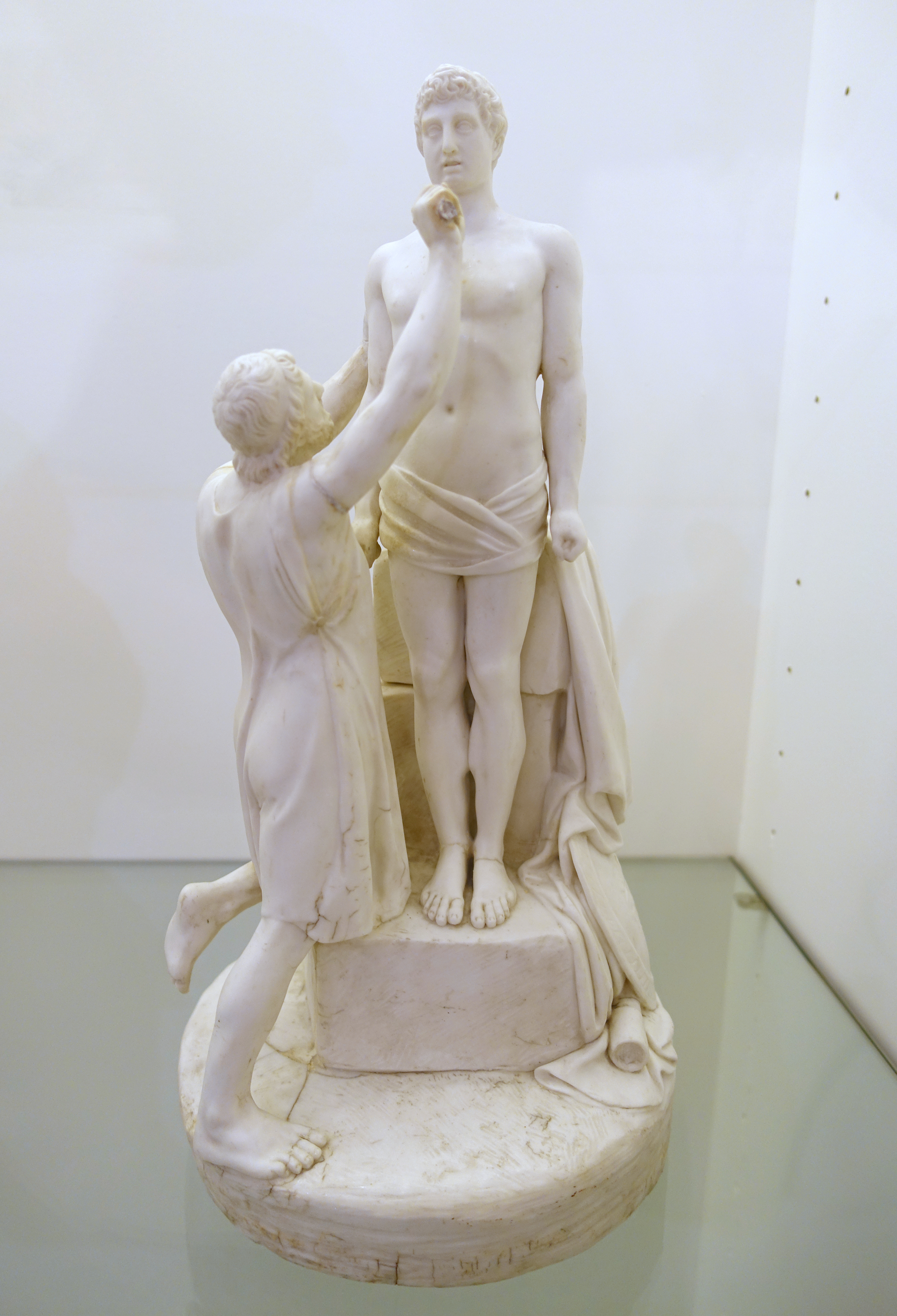 Exhibit in the Museo Nacional de Artes Decorativas, Madrid, Spain. These works are in the public domain because the artists died more than 100 years ago.